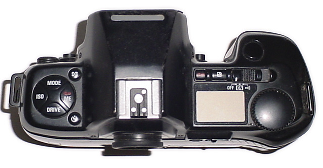 Top view of a Nikon N8008 SLR camera (called the F801 outside of the US)